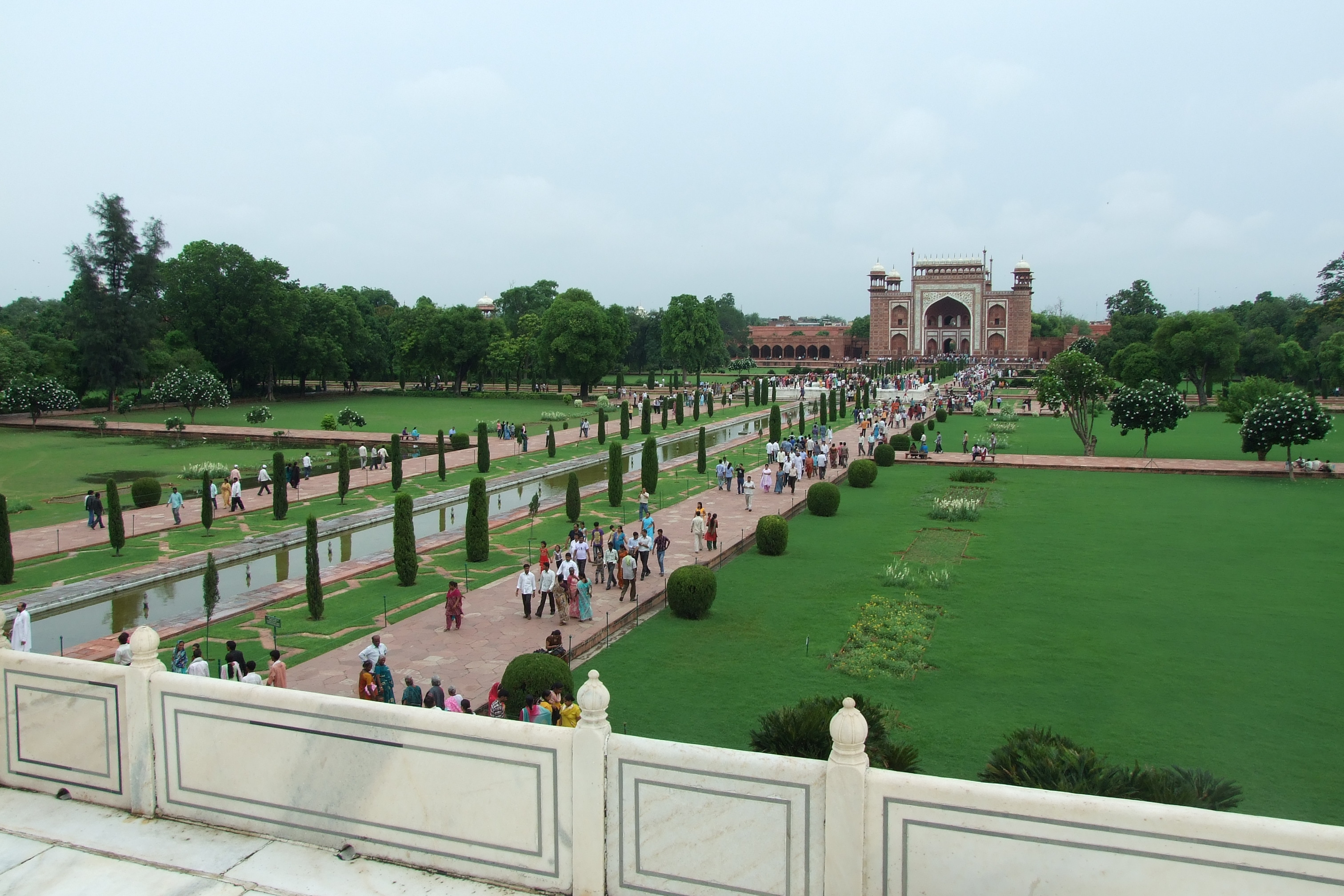 Gardens of the Taj Mahal.